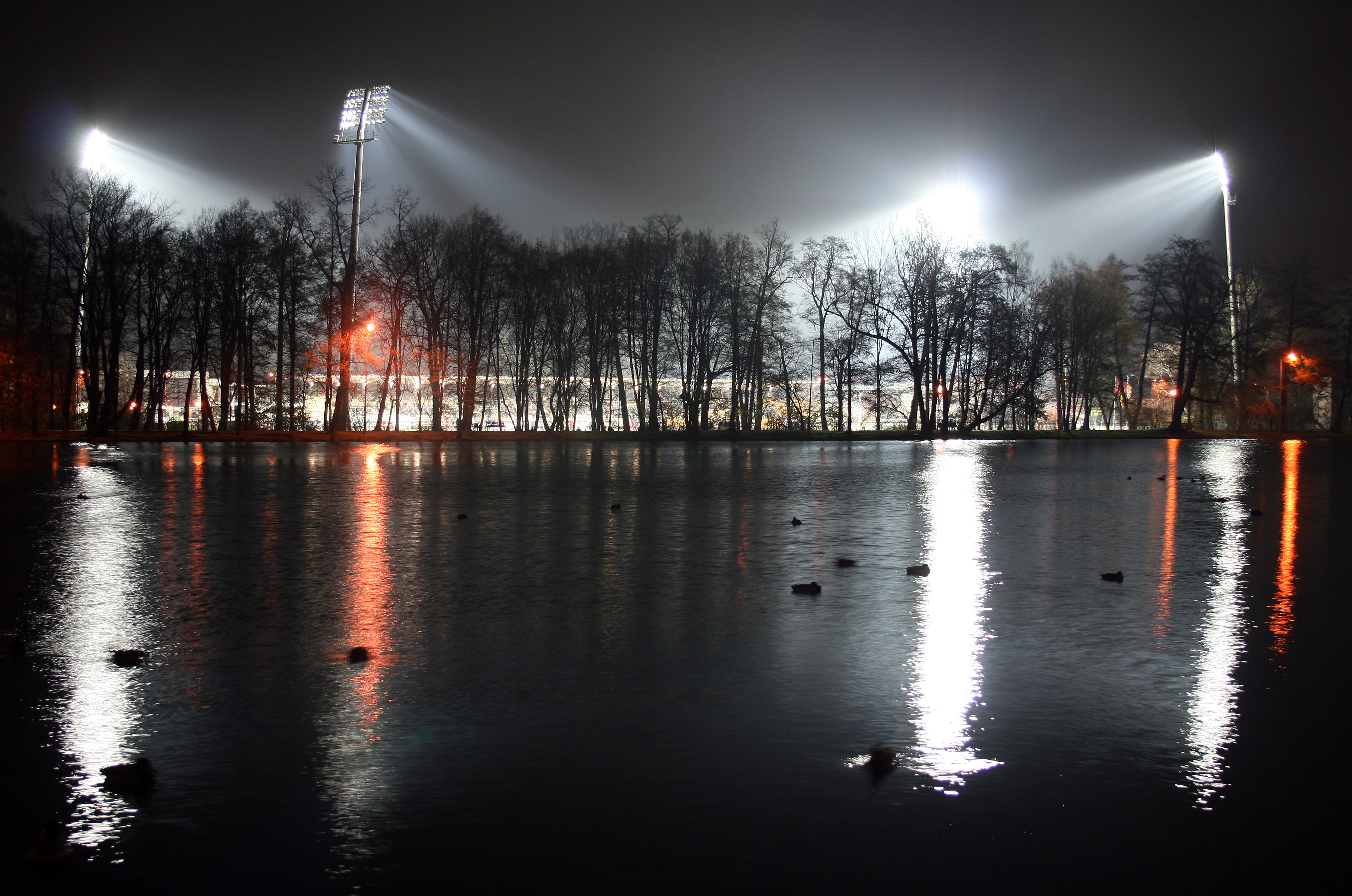 Stadium in Pruszków - night illumination